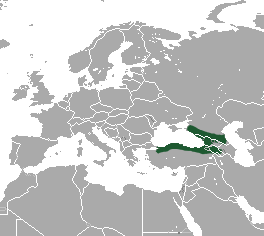 Caucasian Shrew (Sorex satunini) range